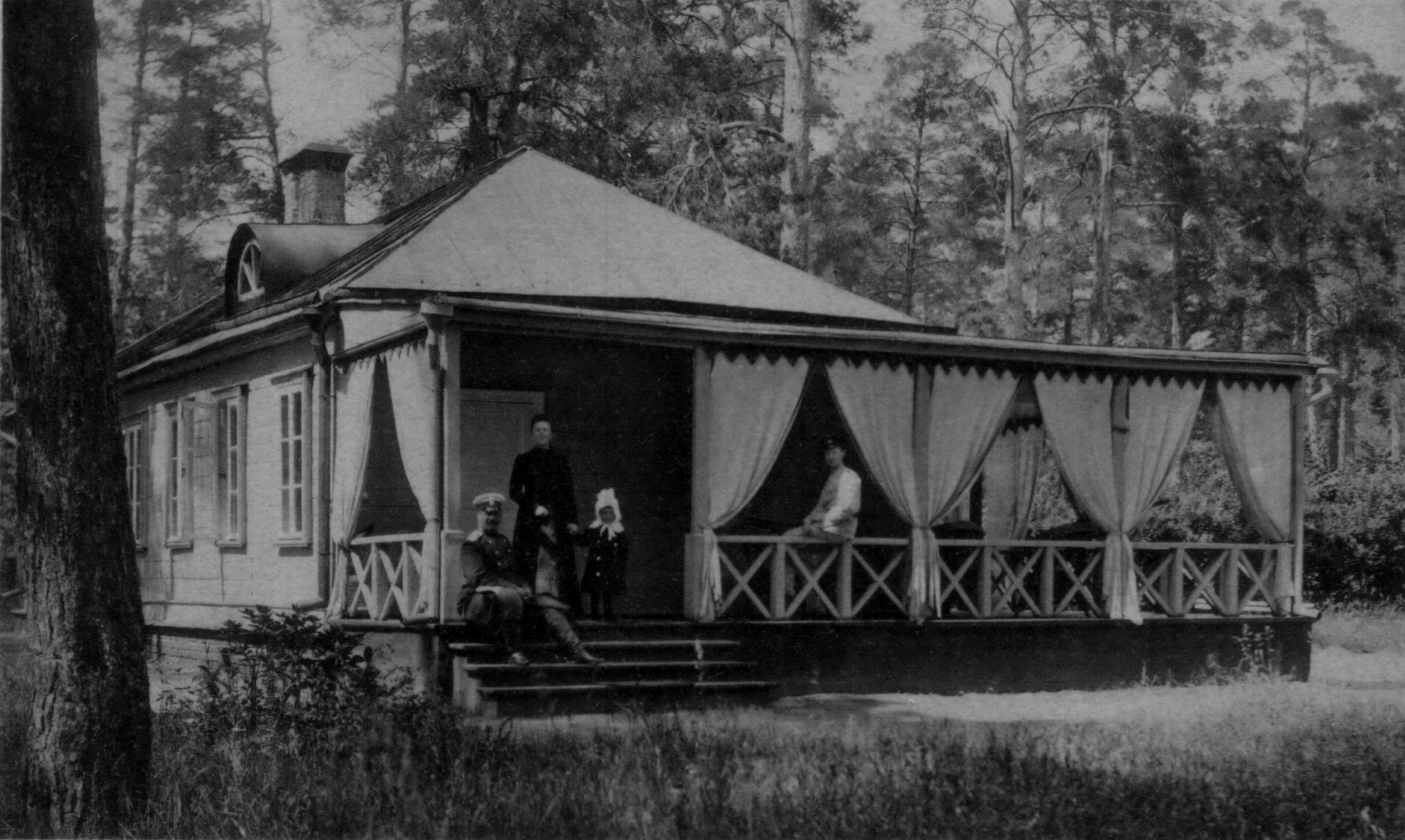 The Tver cavalry school